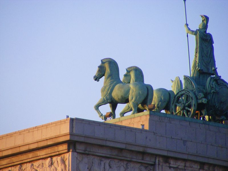 Quadriga at the top of Arco de la Victoria (literally "Arch of Triumph") in Madrid (Spain).